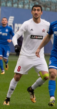 Georgi Gabulov with FC SKA-Khabarovsk in a game against FC Dynamo Moscow.